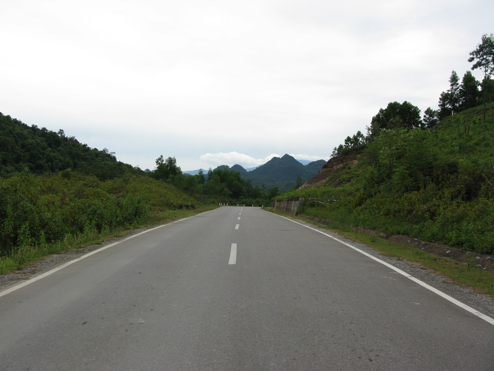 Asian Highway 131 (National Highway 12C) in Ky Anh District, Ha Tinh Province, Vietnam